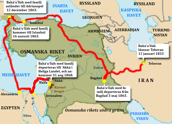 A map in Swedish language illustrating Bahá'u'lláhs deportations 1853 - 1869.